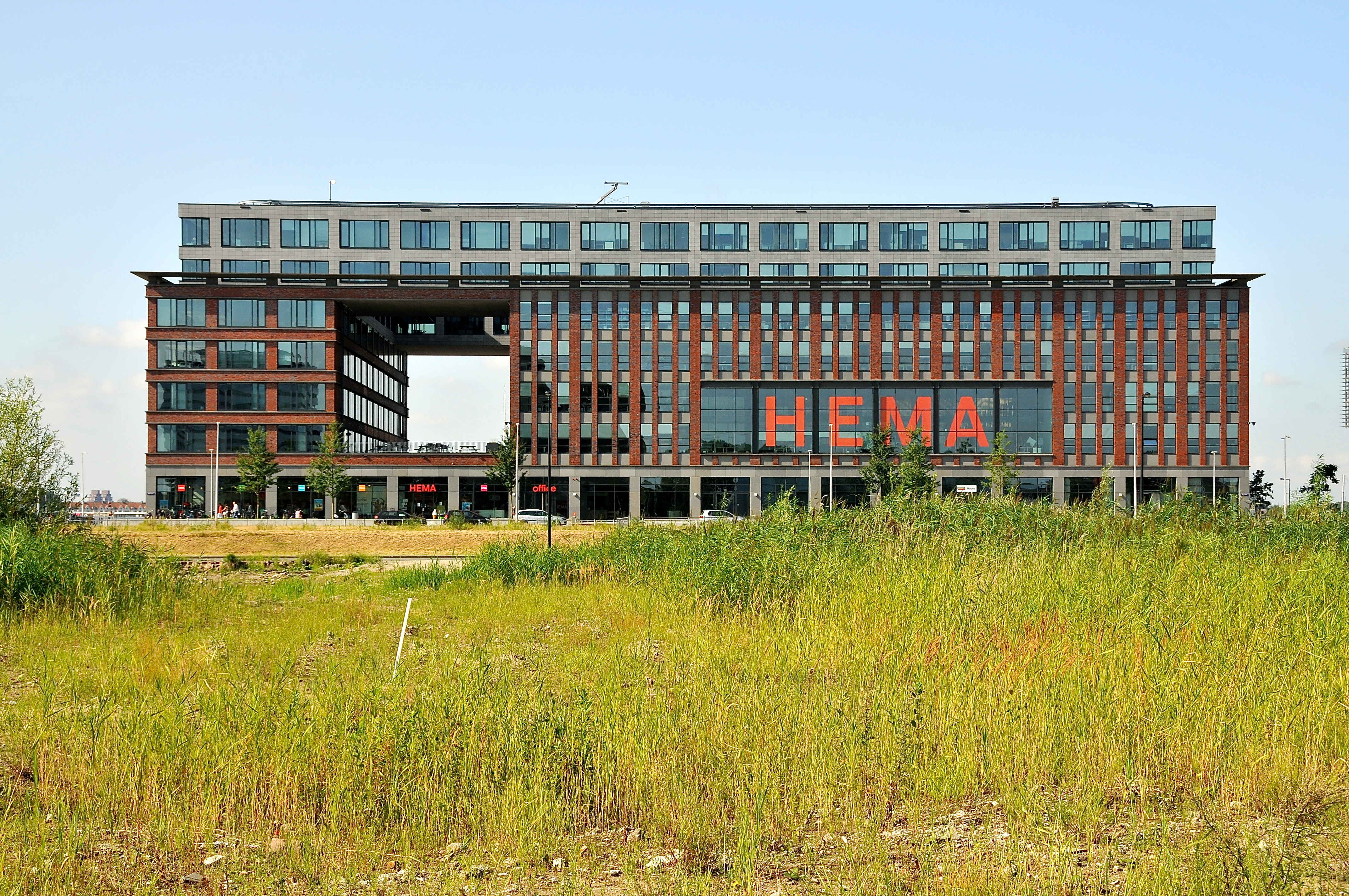 NDSM straat